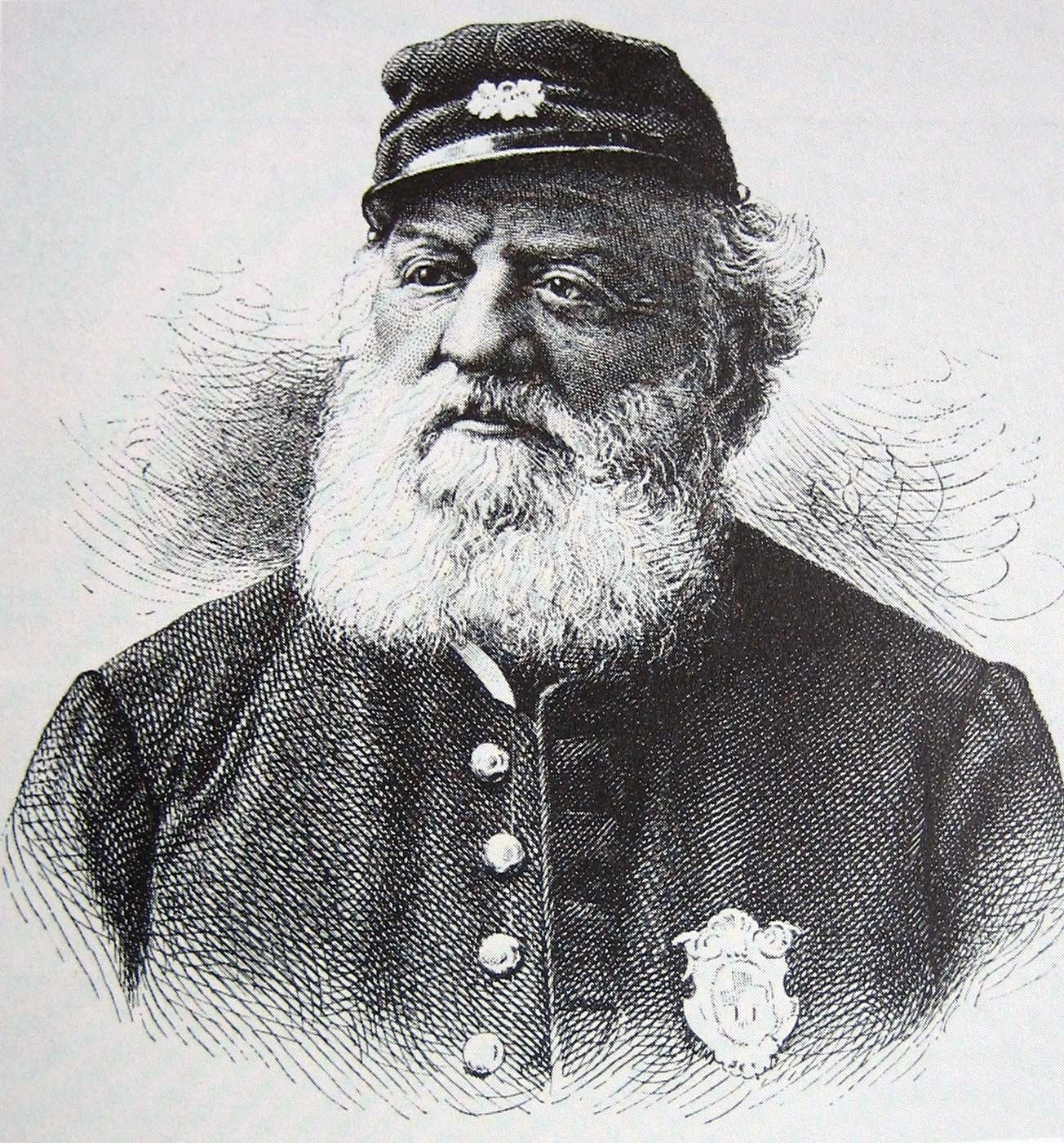 Alois Zgraggen, Lithographie